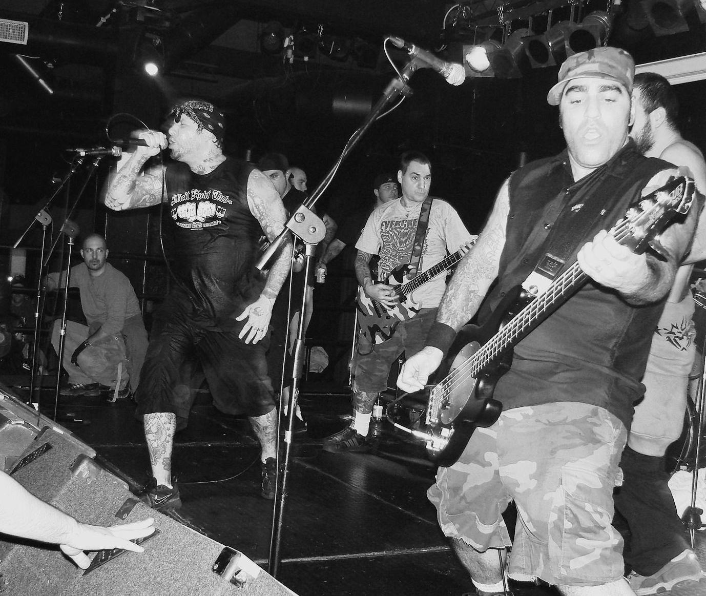 agnostic front live in rome, 23 nov 2007, alpheus.